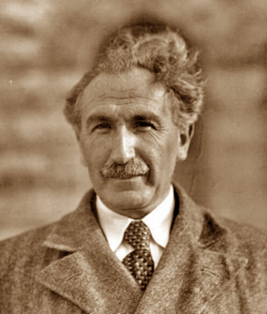 Hugo Bergman